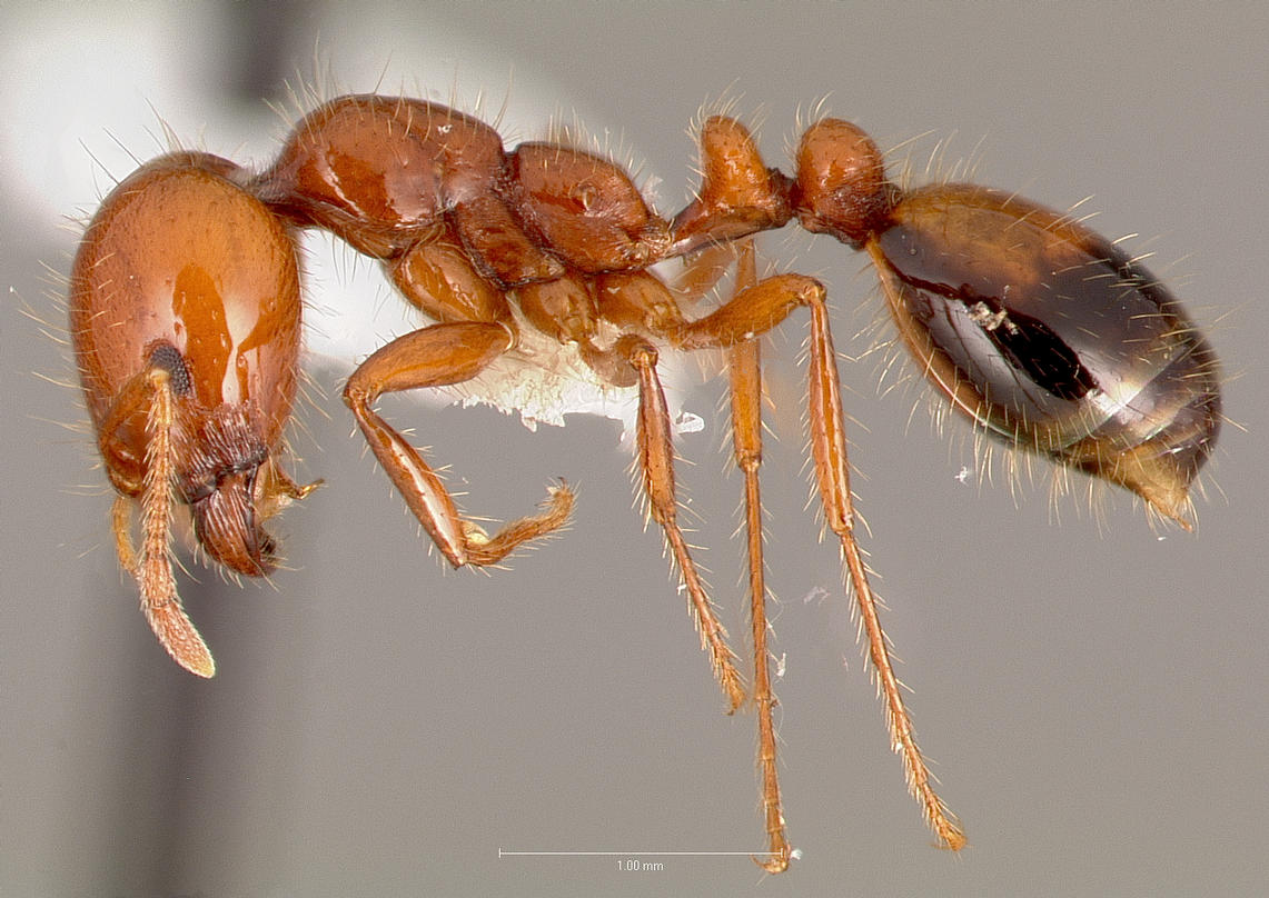 Profile view of ant Solenopsis xyloni specimen casent0005806.